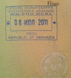 Pursuant to the visa free agreement between Vanuatu and Abkhazia first Vanuatu citizen has crossed the Abkhazian border without prior visa arrangements. The Vanuatu citizen crossed the border and was given leave to remain for 90 days.